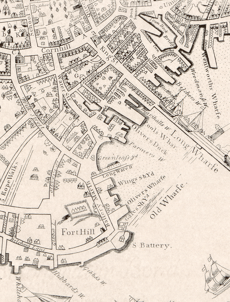 Extract from "The Town of Boston in New England by Captain John Bonner, 1722."